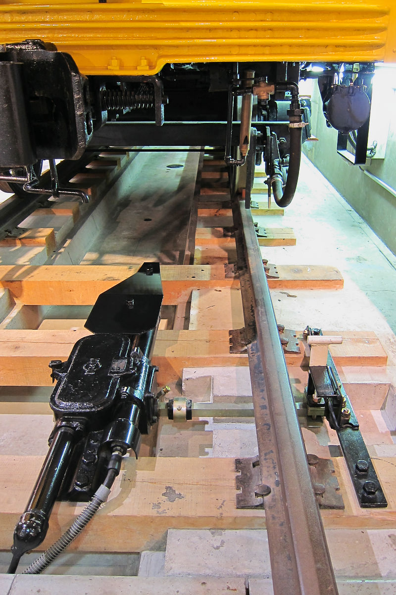 The automatic train stop for a subway at the Metro Museum in Tokyo, Japan.